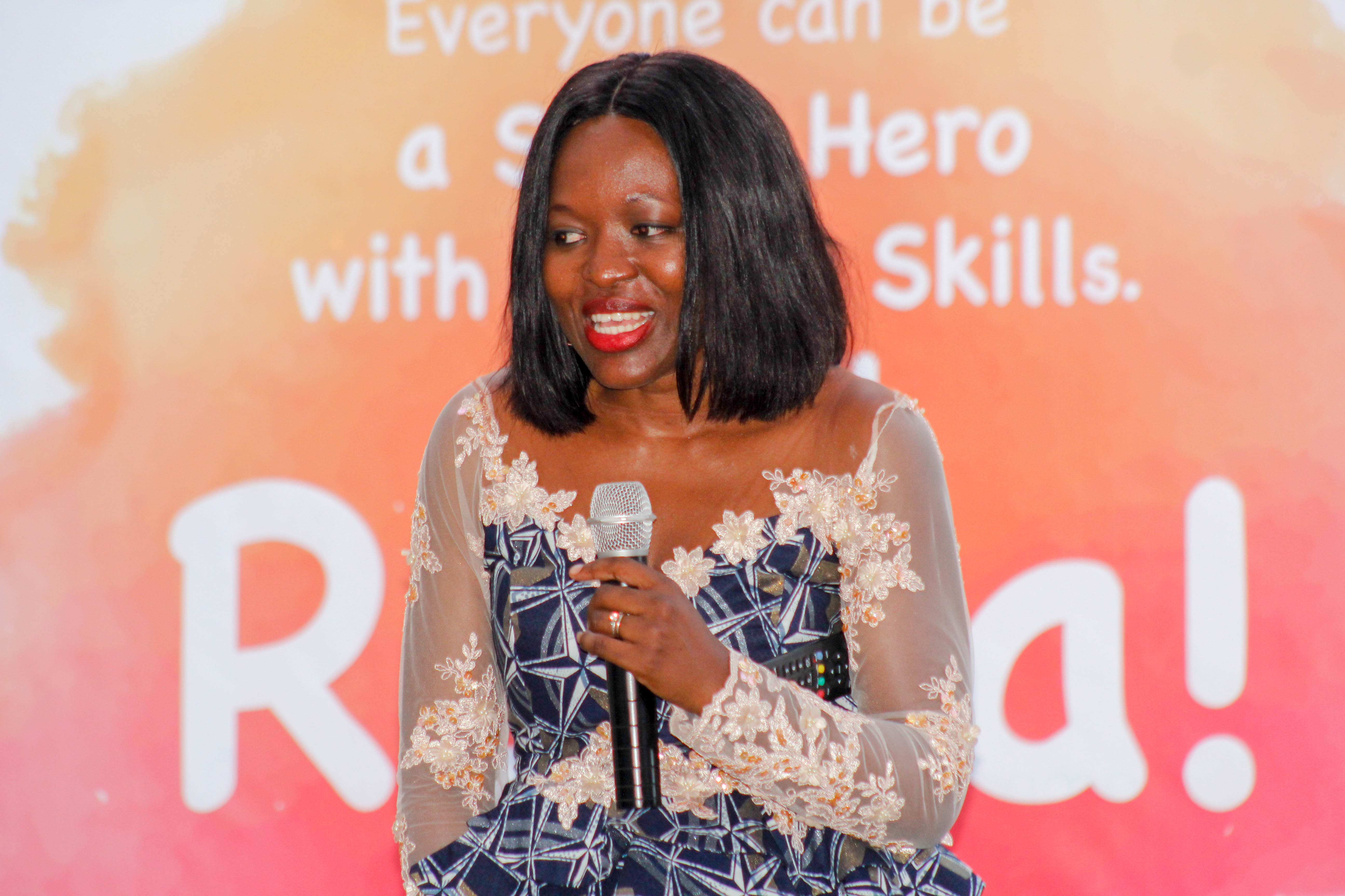 Regina Honu making a presentation at the launch of Rama.